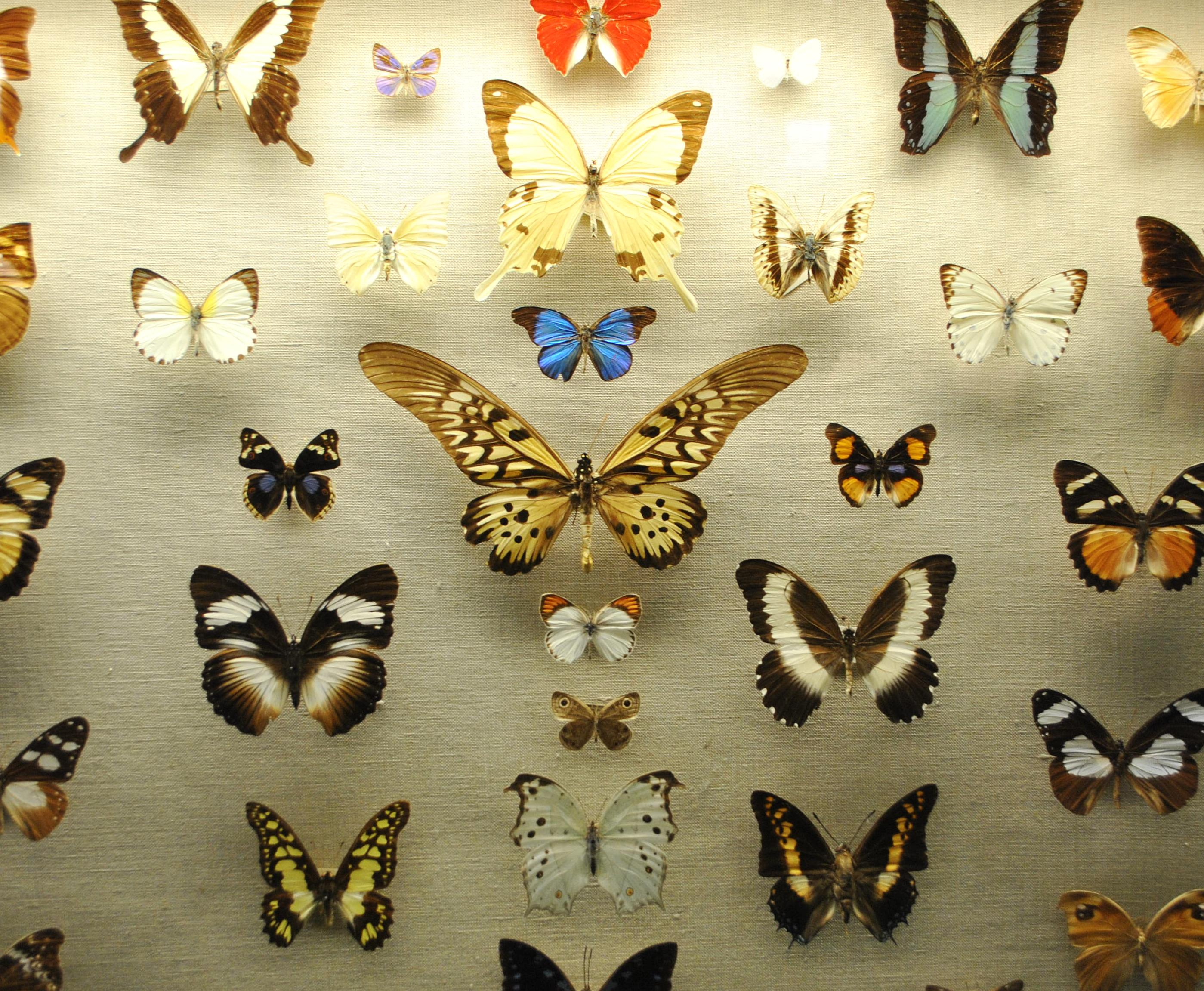 Lepidoptera collection in the AMNH